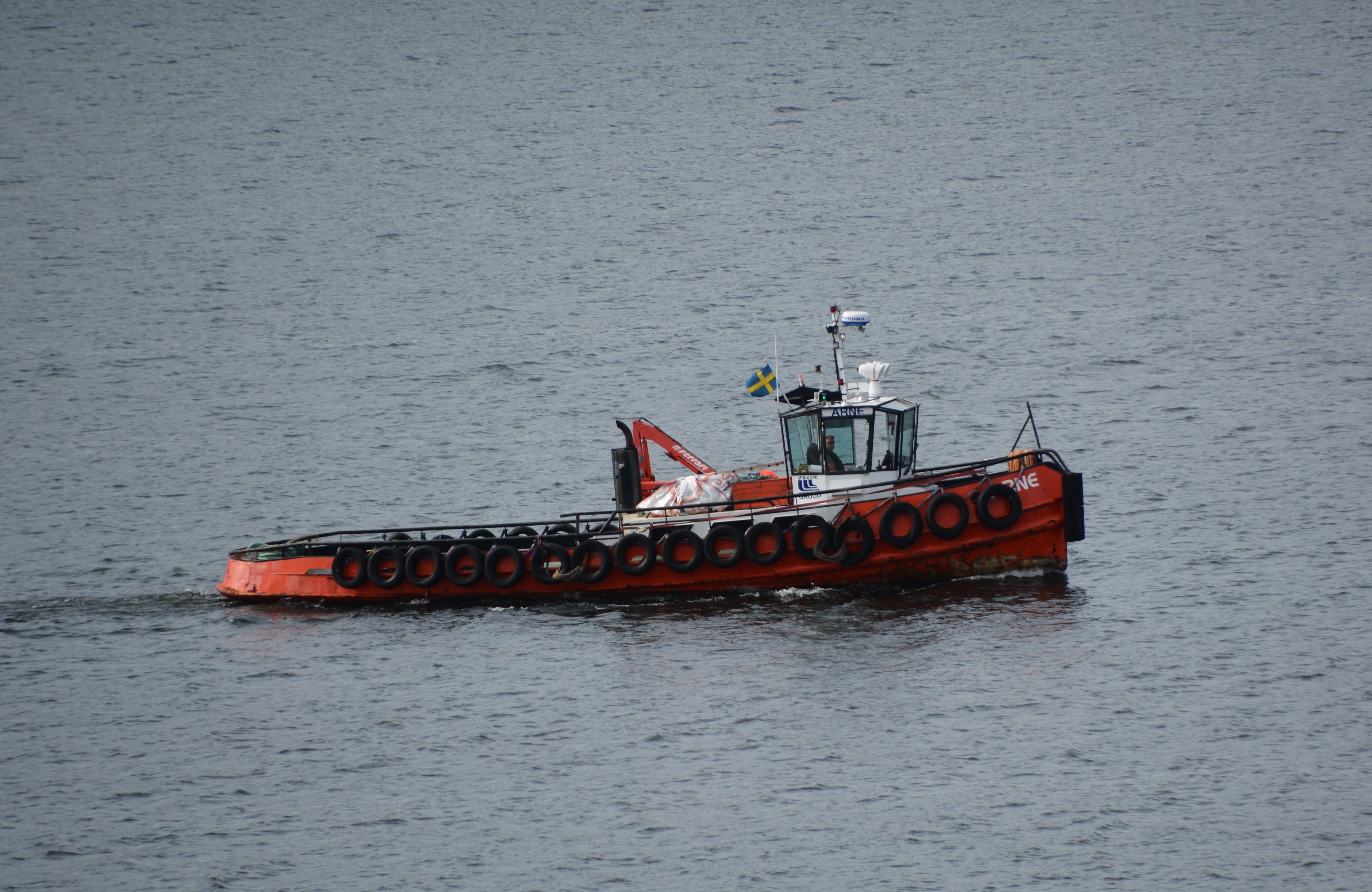 Tug Arne at Lake Mälaren